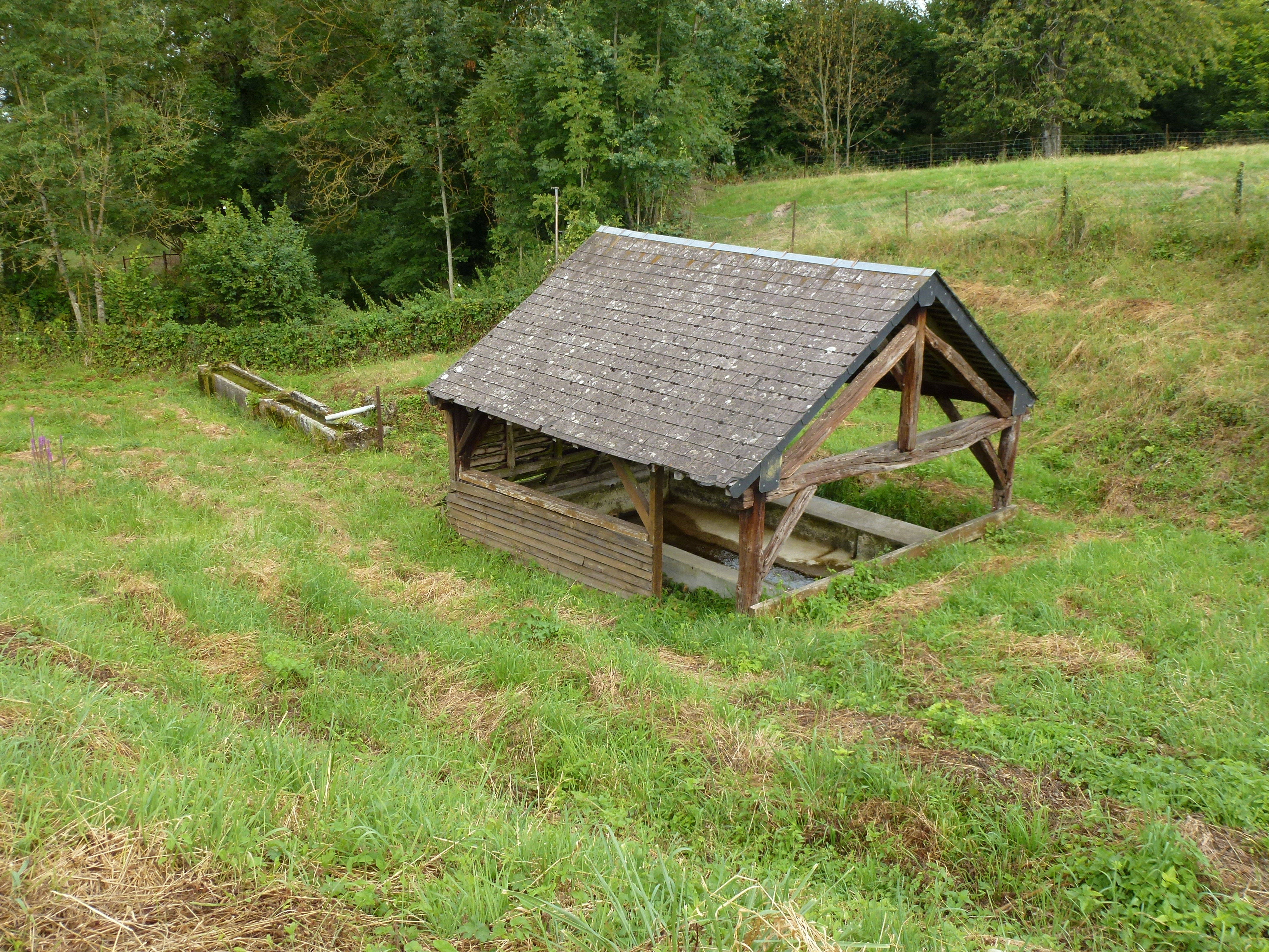 Maranwez (Ardennes) lavoir